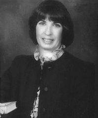 Former United States Representative from California Bobbi Fiedler.